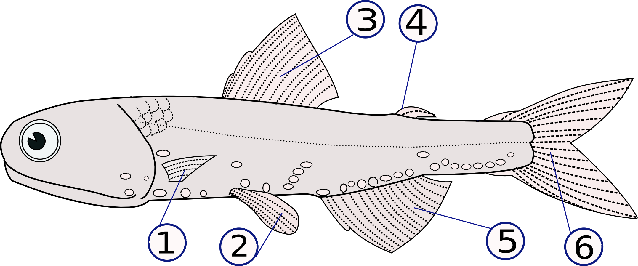 Lampanyctodes hectoris (only fins)